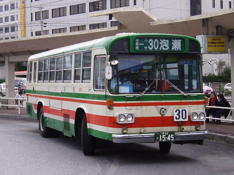 Toyo Bus